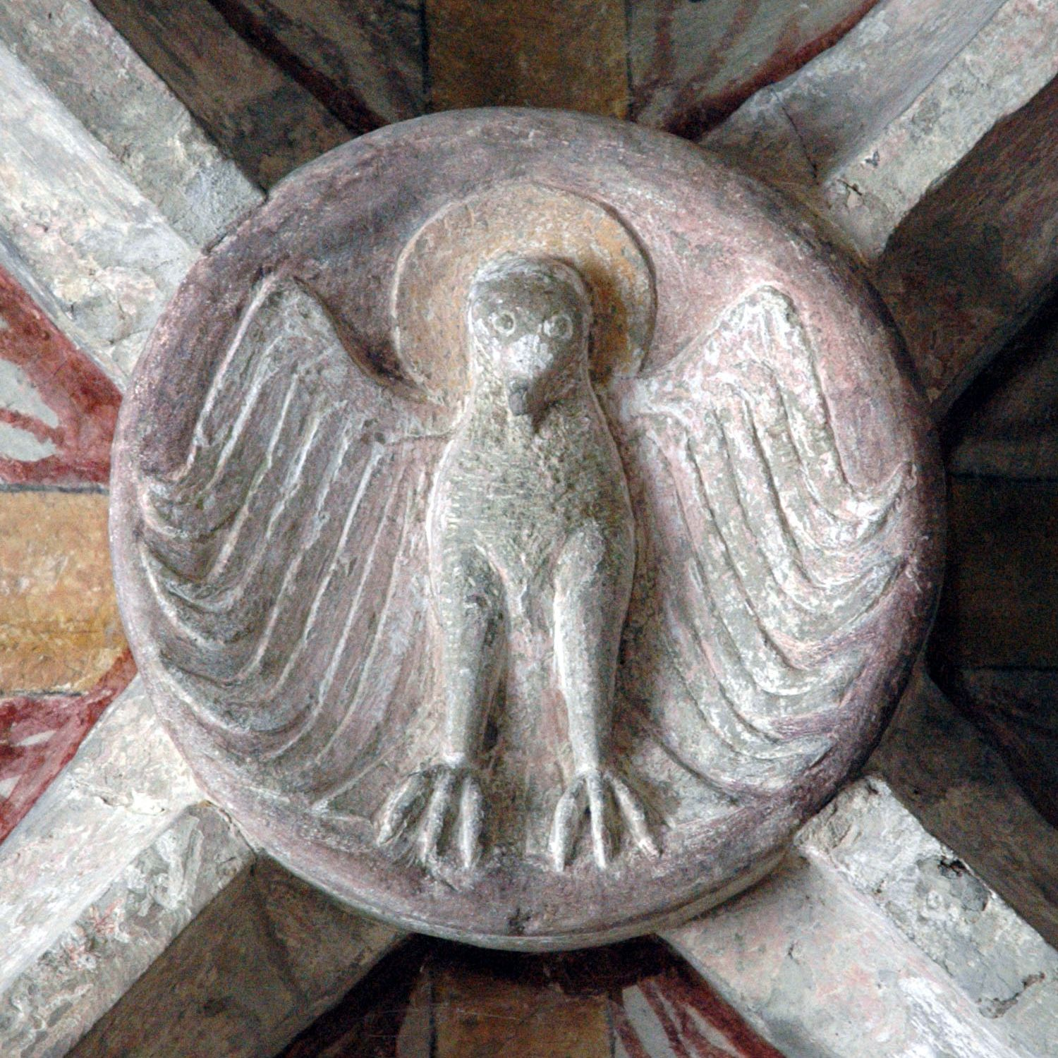 keystone in alter room in church of Saint Michael at the Michaelsberg near Cleebronn, the dove represents the holy ghost.